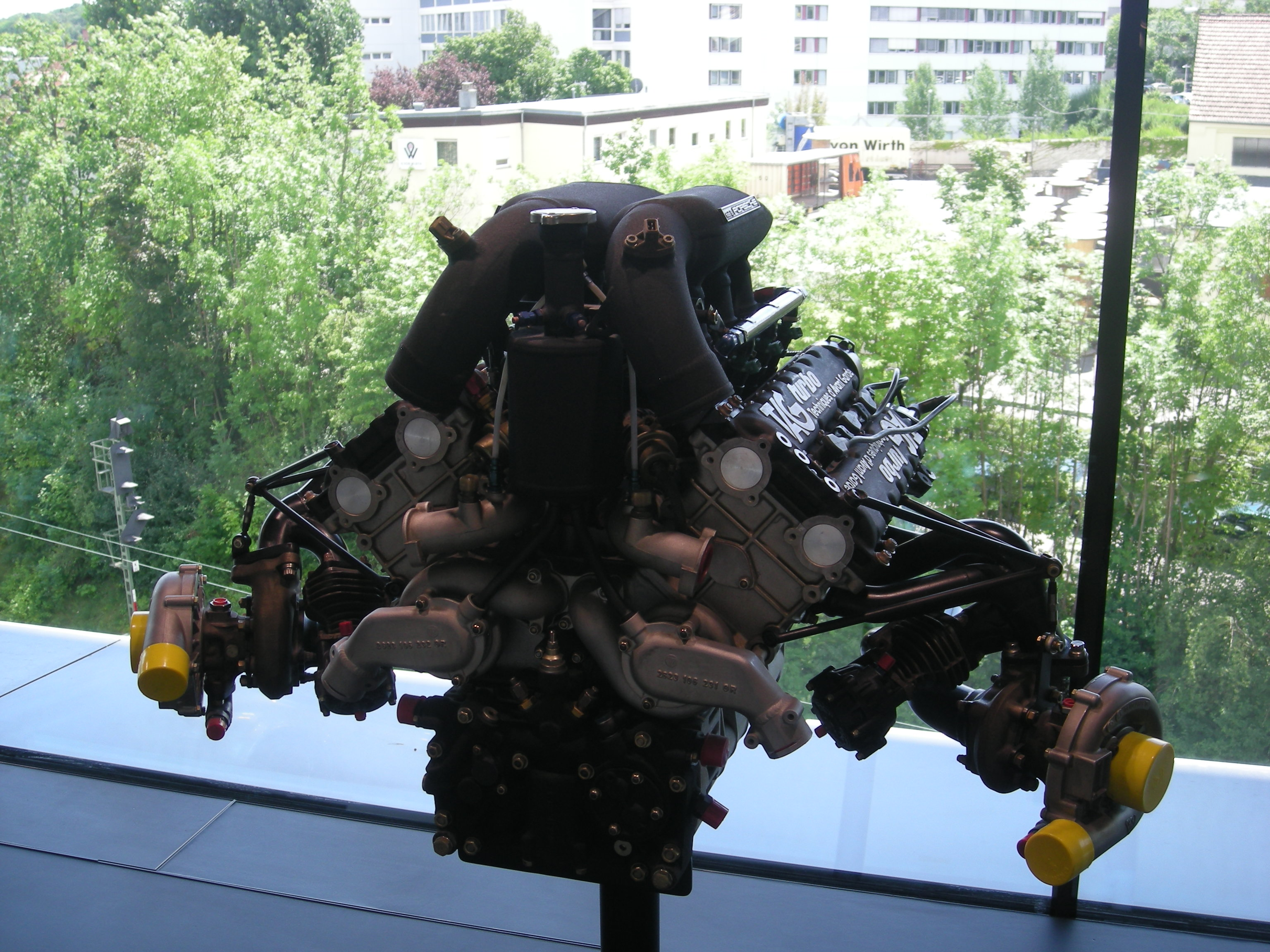 A 1985 Porsche TAG Turbomotor inside the Porsche Museum in Stuttgart, Baden-Württemberg (Germany).